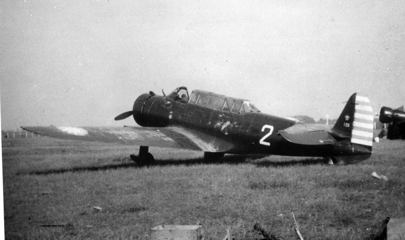 PictionID:45406569 - Catalog:16_006802 - Title:Vultee V-11 in China Air Force - Filename:16_006802.TIF - Image from the Ray Wagner Collection. Ray Wagner was Archivist at the San Diego Air and Space Museum for several years and is an author of several books on aviation --- ---Please Tag these images so that the information can be permanently stored with the digital file.---Repository: San Diego Air and Space Museum